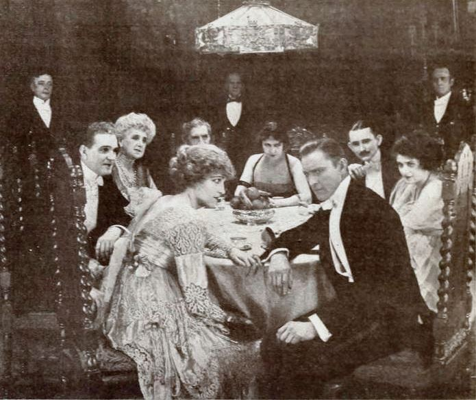 Still from the American film Raffles, the Amateur Cracksman (1917) with John Barrymore (front right), the other actors and actresses are unidentified, on page 35 of the December 22, 1917 Exhibitors Herald.